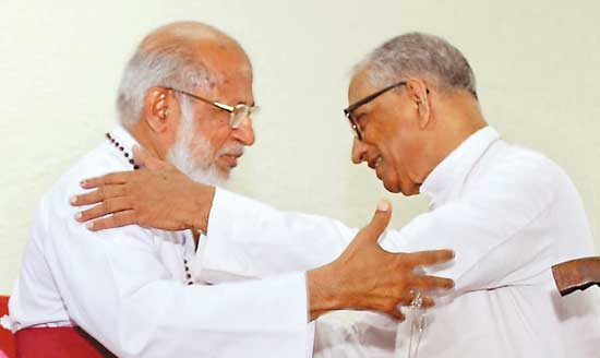 Mar George Alenchery, the first elected Major Arch Bishop of Syro Malabar Church with Mar Powathil, former CBCI Chairman.